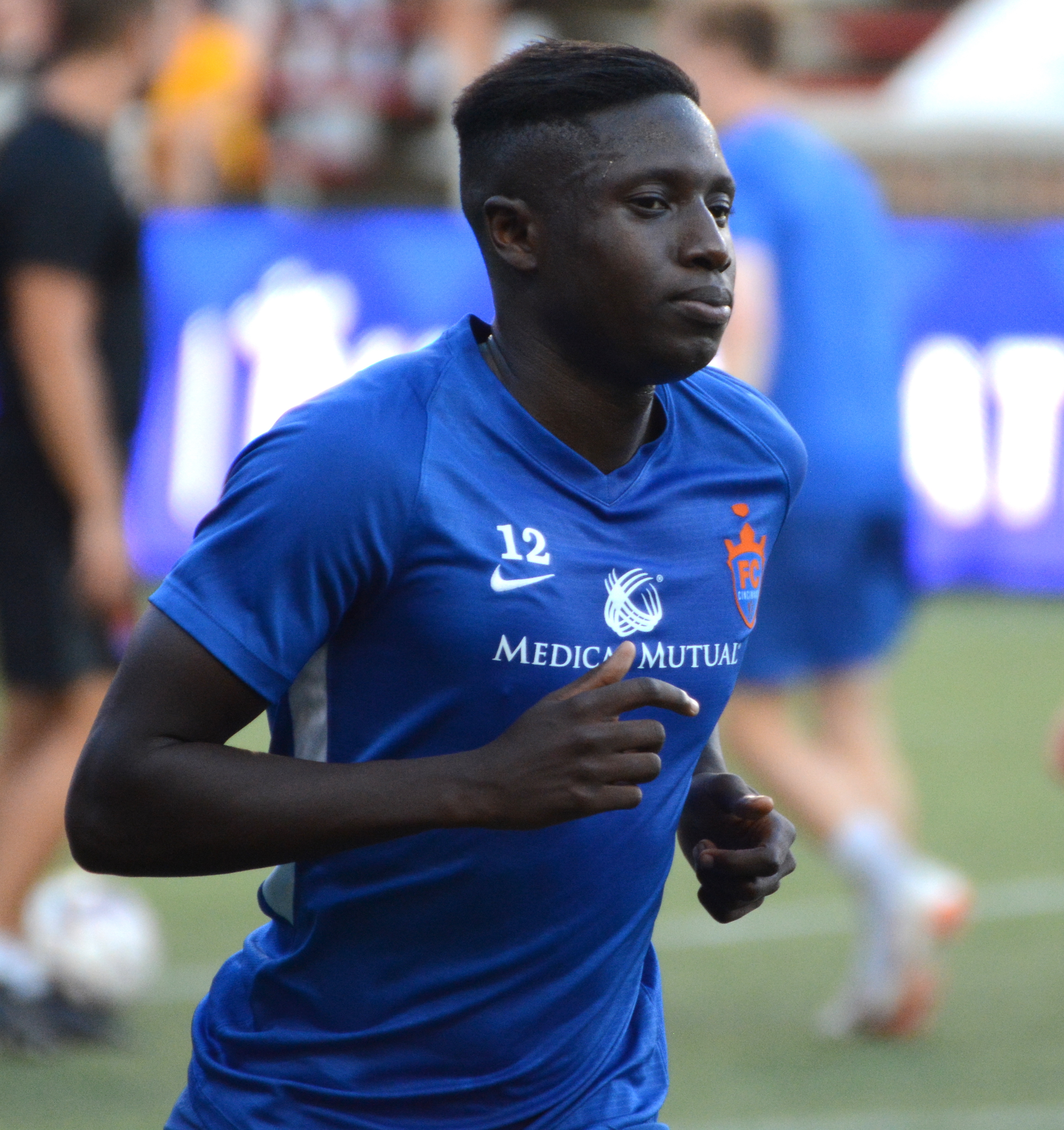 Taken during a USL regular season match between FC Cincinnati and Pittsburgh Riverhounds at Nippert Stadium in Cincinnati, USA on September 1, 2018.